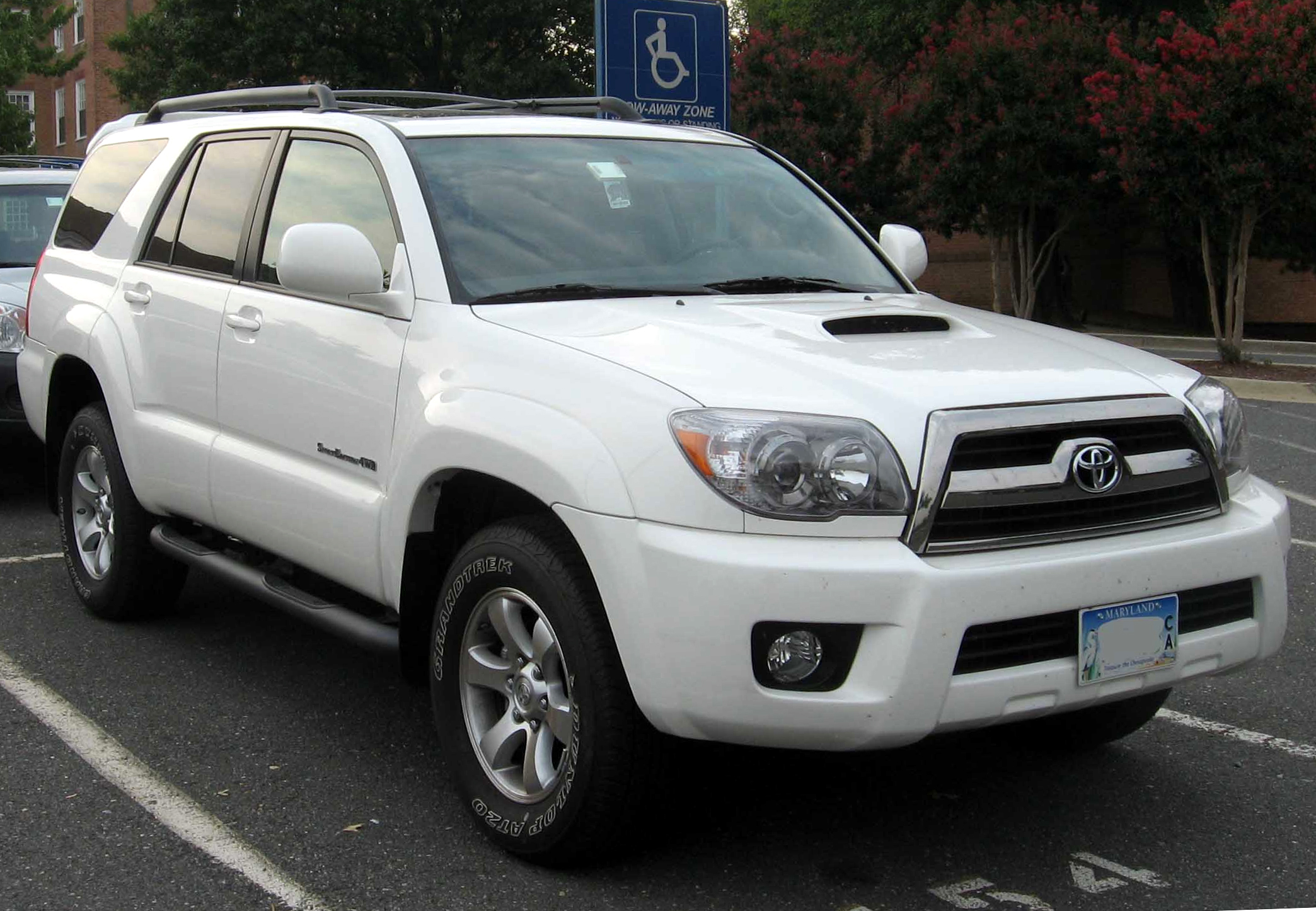 2006-2007 Toyota 4Runner photographed in USA.